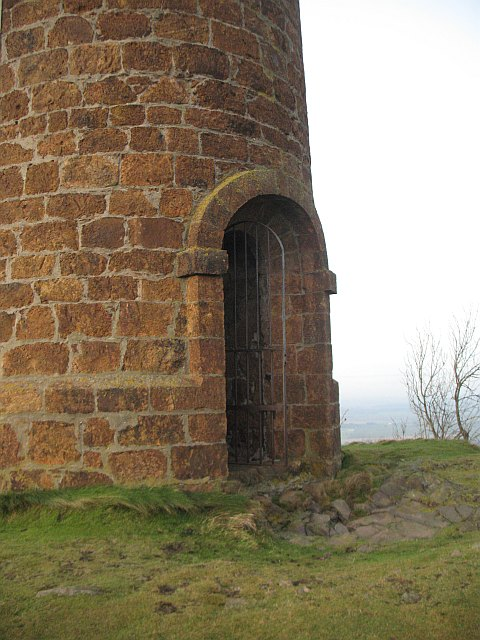 Hopetoun Monument, Byres Hill. The door to the southern tower of the pair. A similar tower is on Mount Hill near Cupar.15695